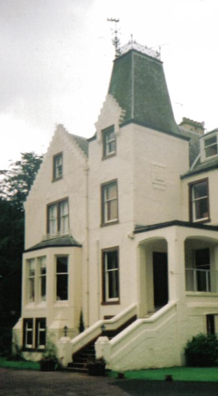 The older front aspect of Lochridge House in Stewarton, East Ayrshire, Scotland